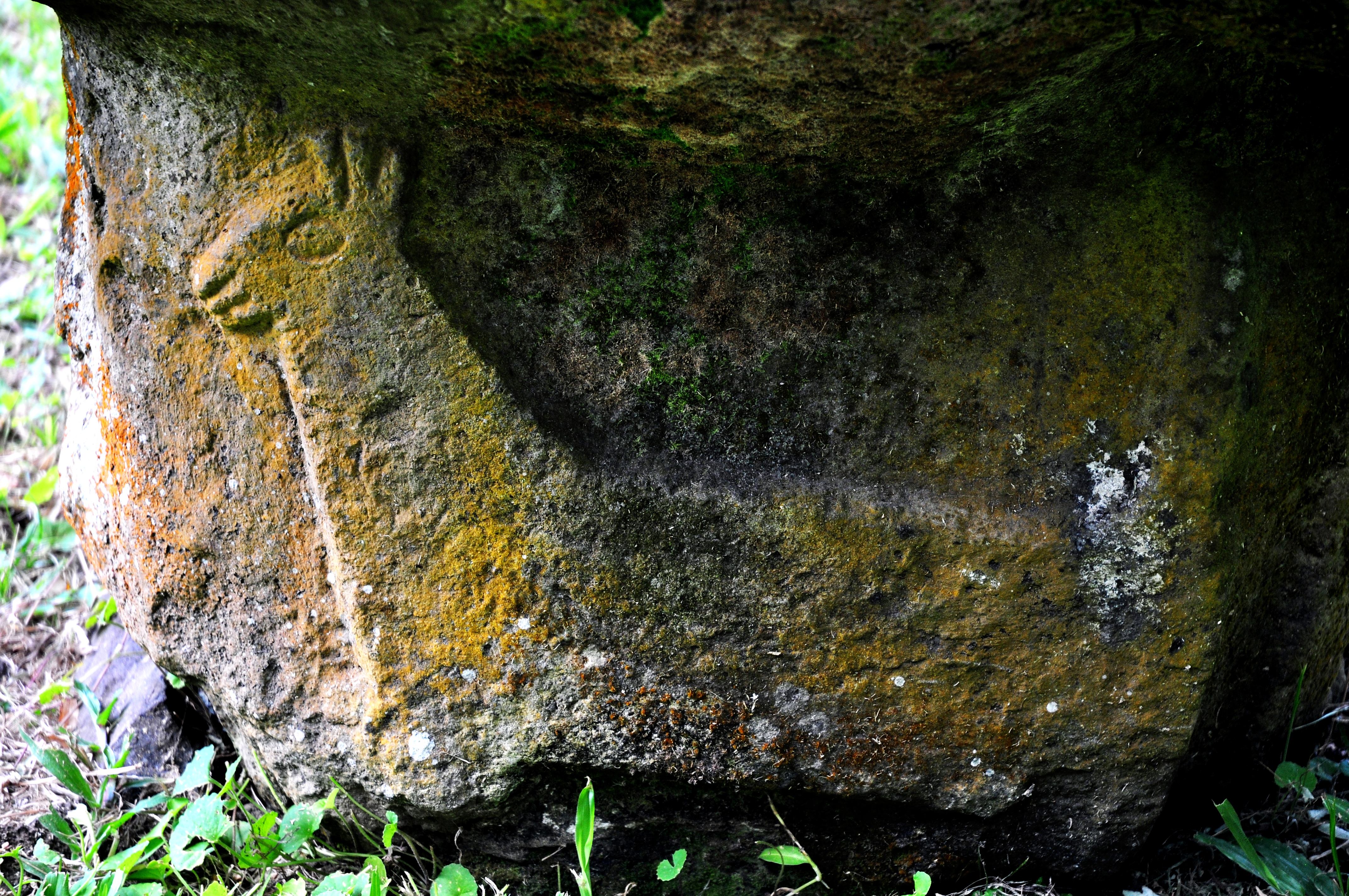 Carved stone relief of the Marquesan Dog, at the base of Tiki Makiʻi Tauʻa Pepe at the meʻae Iʻipona, near the village of Puamaʻu on the island of Hiva Oa